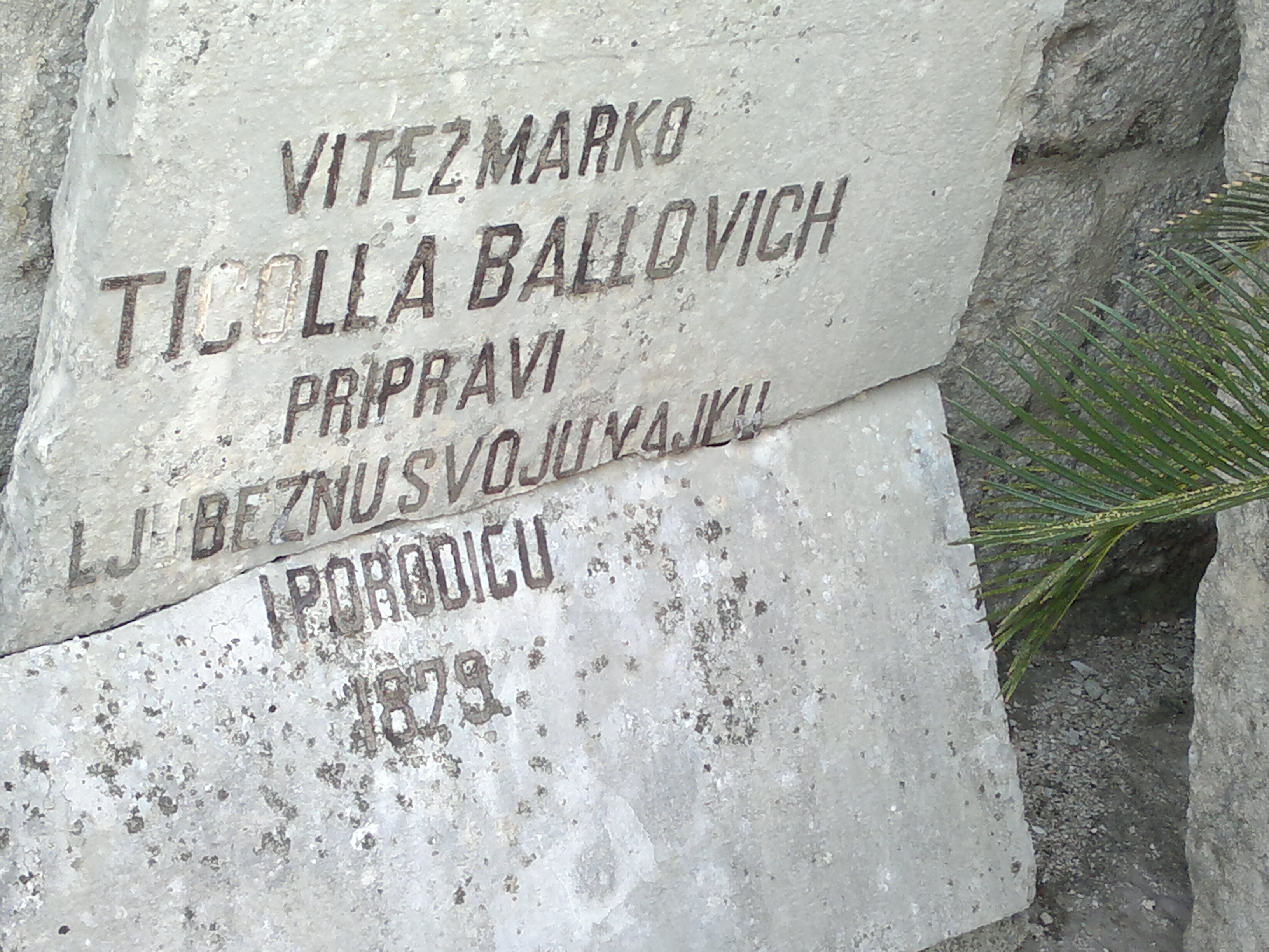 Thumbstone of Marko Ticolla Ballovich on the Gospa of Škrpjela islet, behind the church